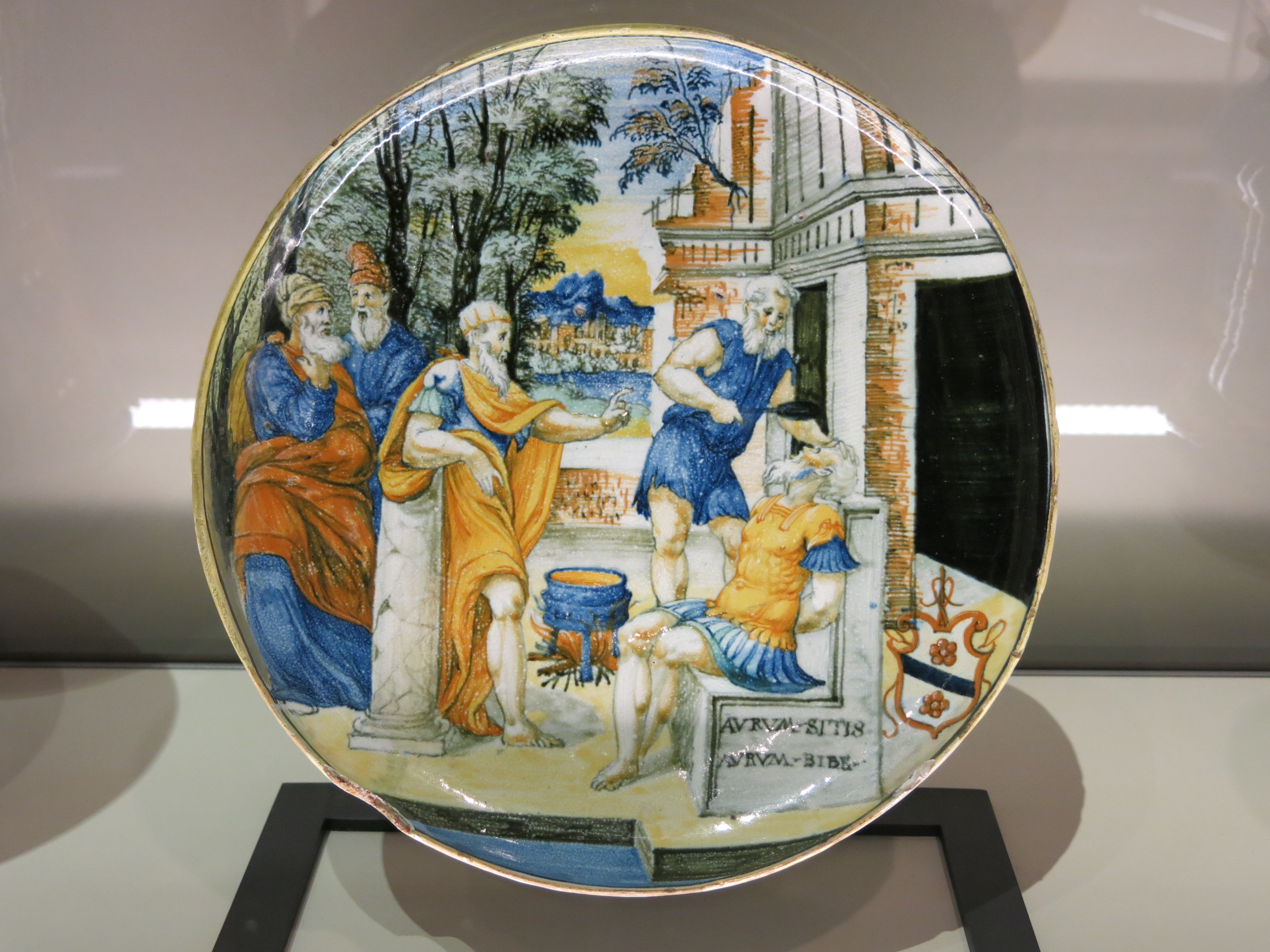 The torture of Crassus. Faience. Circa 1530-1540 Campana collection purchase 1861. Louvre museum (Paris, France).